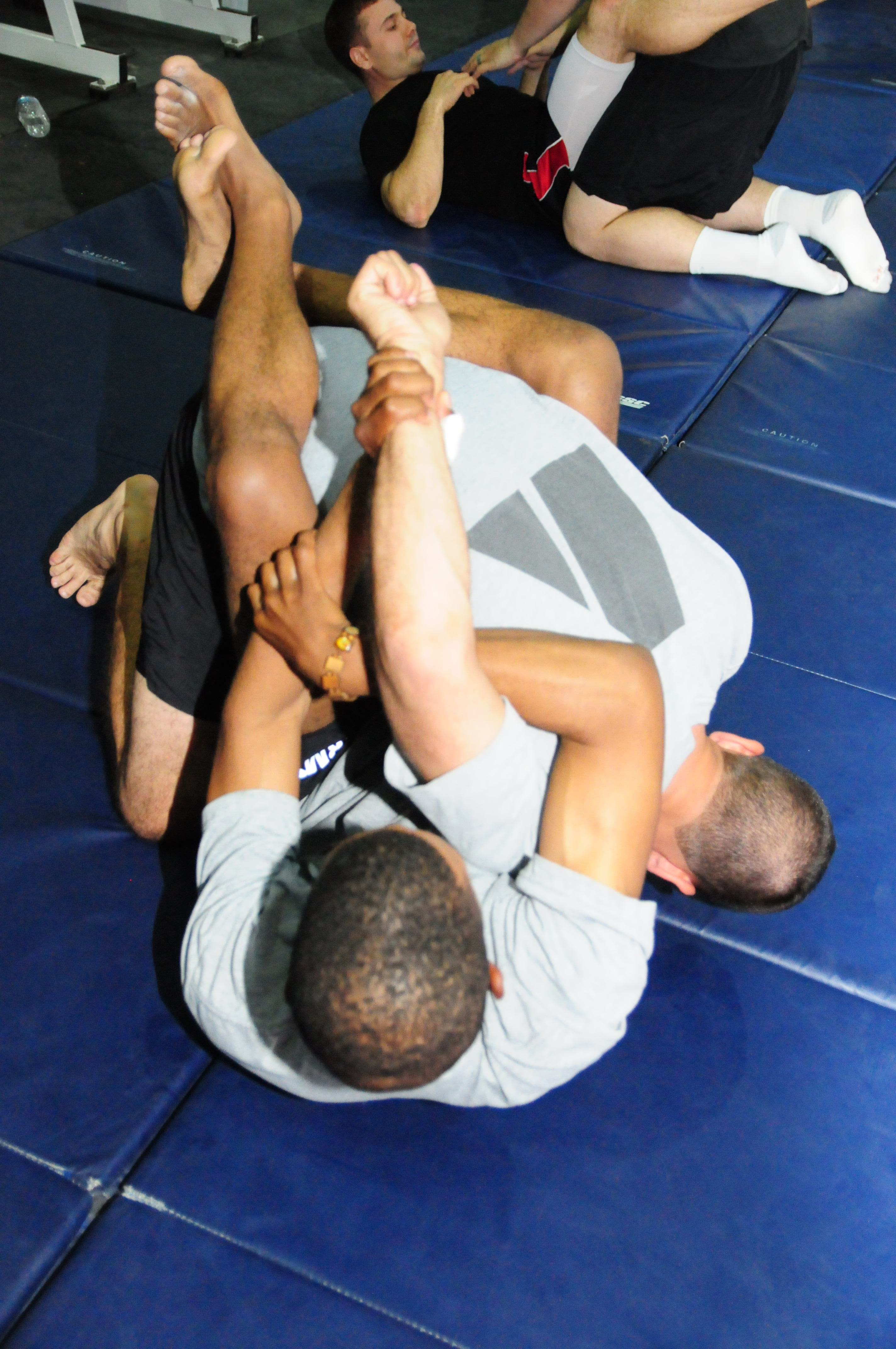 U.S. Army Spc. Dijon Moore, a chemical, biological, radiological, nuclear specialist with the 230th Engineer Battalion, attempts to perform an Kimura shoulder-lock while grappling with Spc. Jackson Leach during a Brazilian jiu-jitsu class at the gym at Camp Arifjan, Kuwait, Oct. 25, 2011. (U.S. Army photo by Pfc. Linsey Williams/Released).